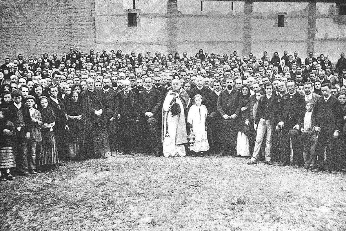 Marquis of Cerralbo in Estalla, attending a ceremony to honor Carlist combatants shot by Maroto, 1892